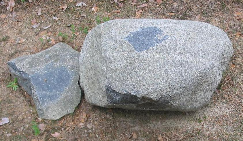 1.100 million years old Diorite, coming from Småland (Sweden), in the glacial erratic garden between the villages Klein Briesen and Ragösen in the nature park Naturpark Hoher Fläming. The villages are parts of the town Belzig in the district Potsdam Mittelmark, state Brandenburg, Germany.